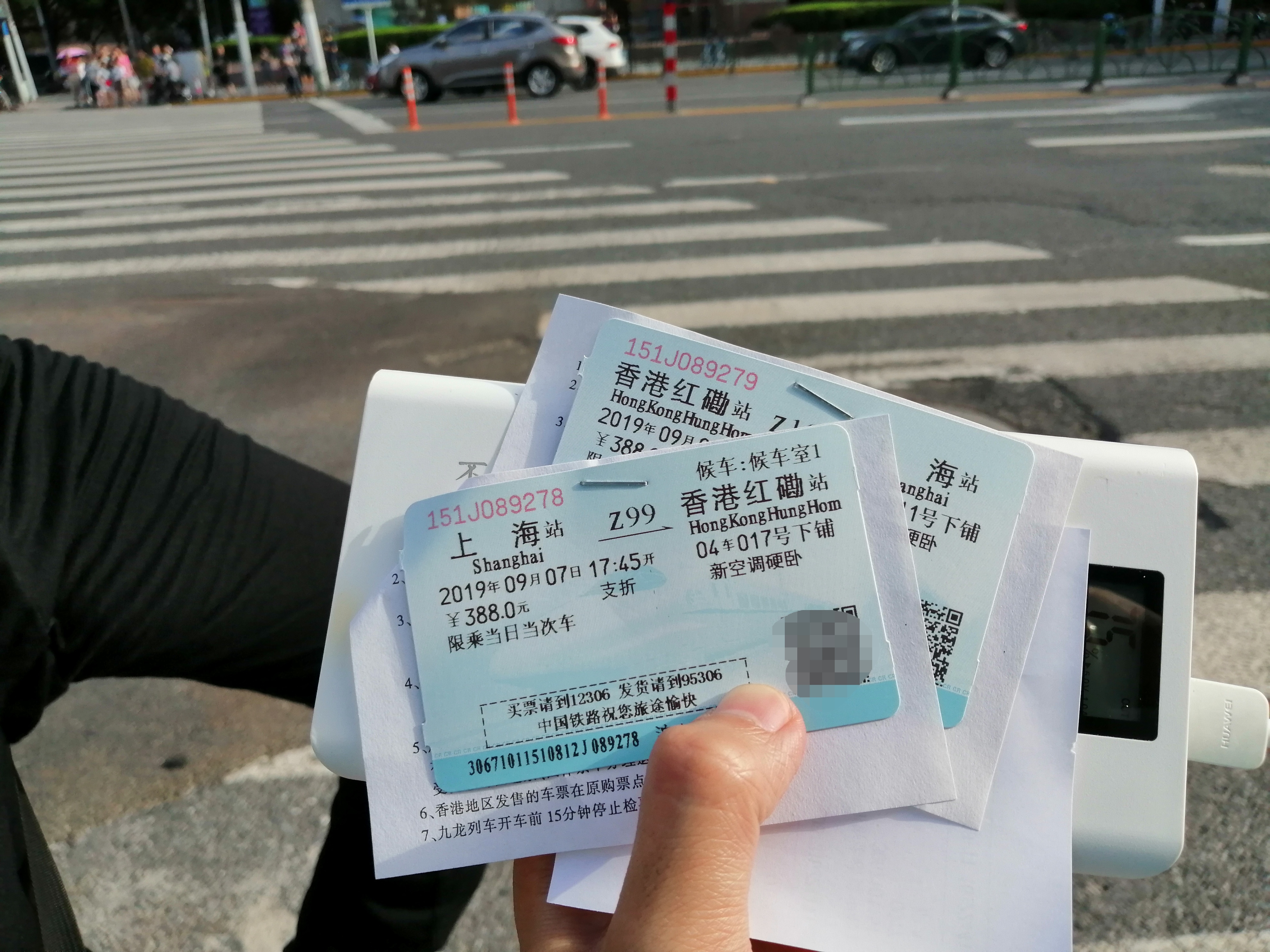 Z99 and Z100 tickets, sold in Shanghai Railway station after Hung Hom station renaming. The tickets also marks "支" (Alipay) and "折" (Discounted). 中文（中国大陆）: 在上海站售出的沪九直通车往返车票，摄于九龙站更名为香港红磡站之后。车票上注明“支”（代表车票在售票窗口售出，且使用支付宝付款）和“折”（代表车票为折扣票）。